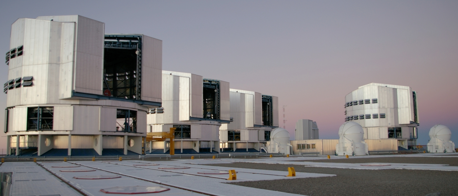 Paranal Observatory: The VLT platform with UT1 (unit telescope 1) to UT4 (Antu, Kueyen. Melipal and Yepun, left to right), some ATs (auxiliary telescopes) and the VST dome between UT3 and UT4